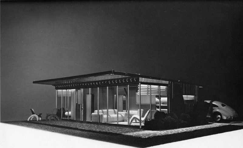 Known as the "Trend Home" designed by Jacque Fresco.